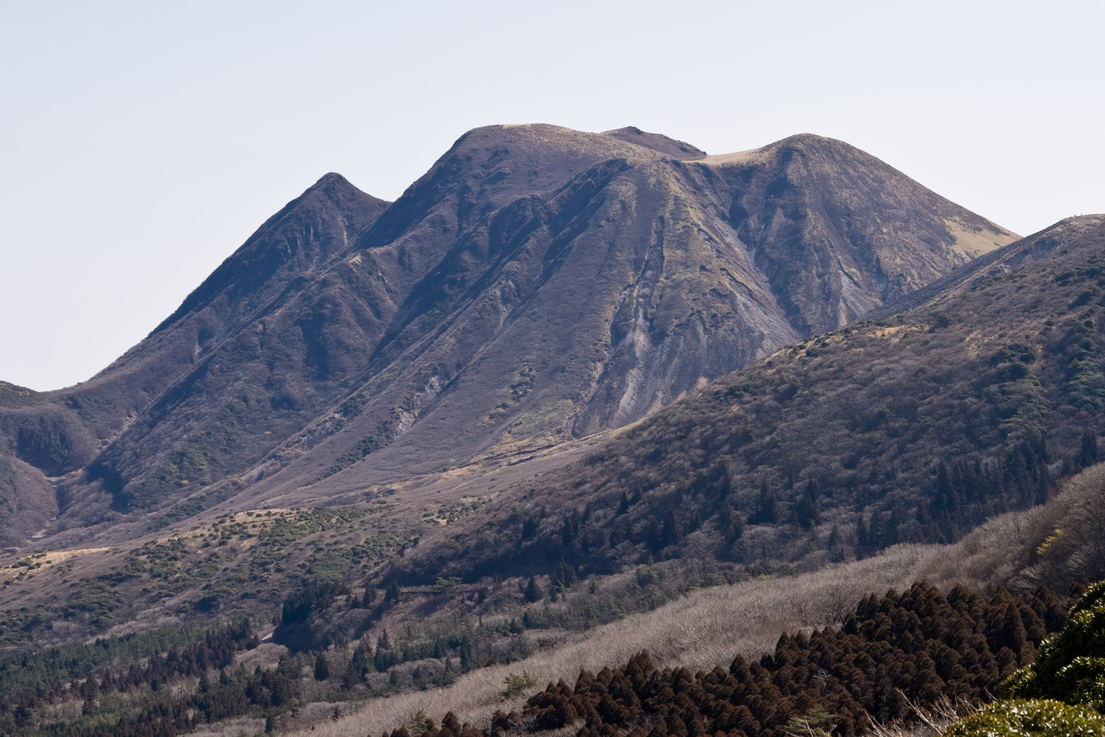 Mt.Mimata in Kuju Mountains, Oita Pref., Kyushu, Japan.